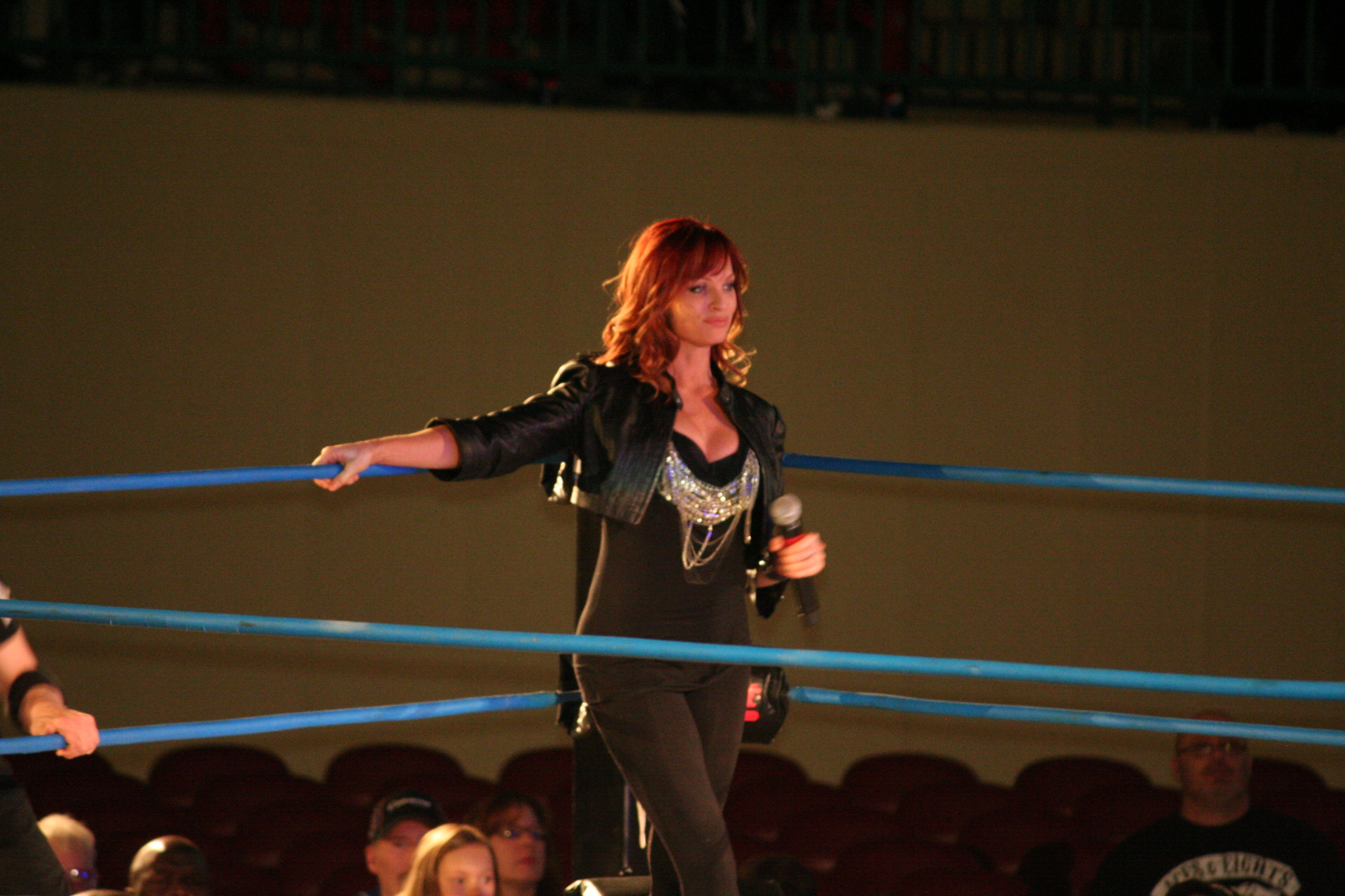 Christy Hemme at TNA Wrestling House Show Concord, NC March 22nd 2013